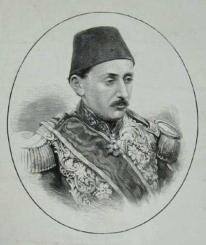 Portrait of Murad V, Sultan of the Ottoman Empire for a few months in 1876.